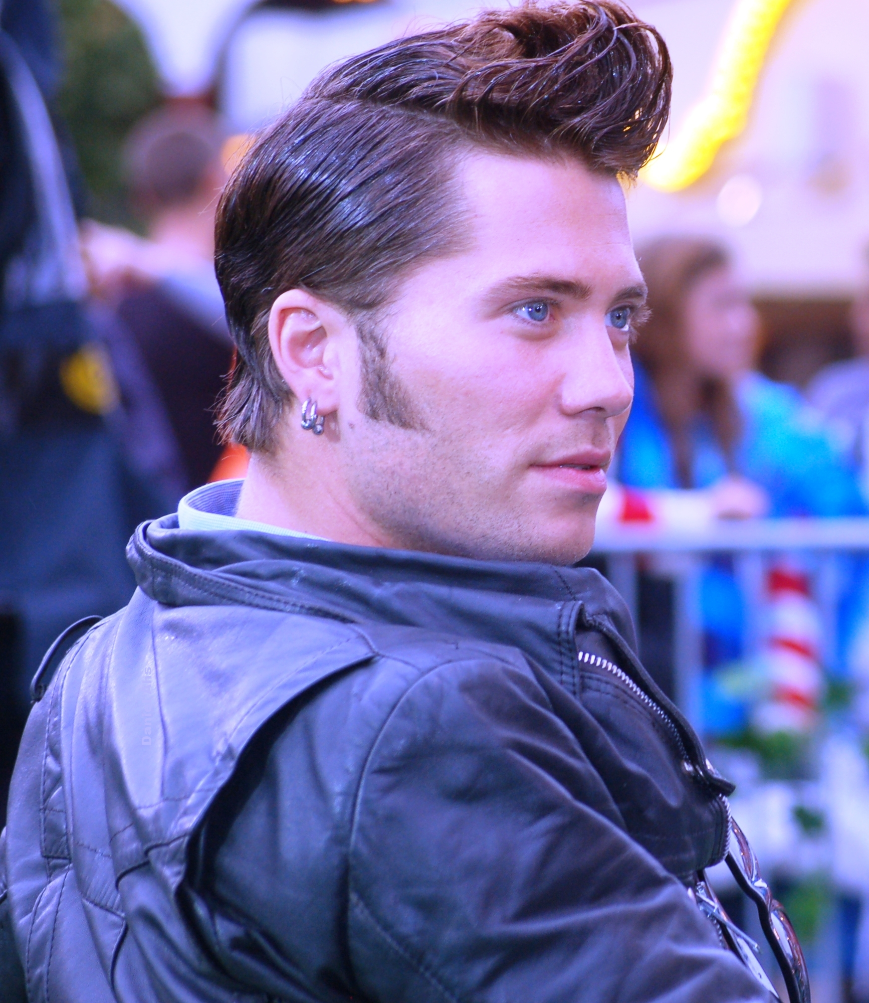 Brolle siting and relax at Gröna Lund